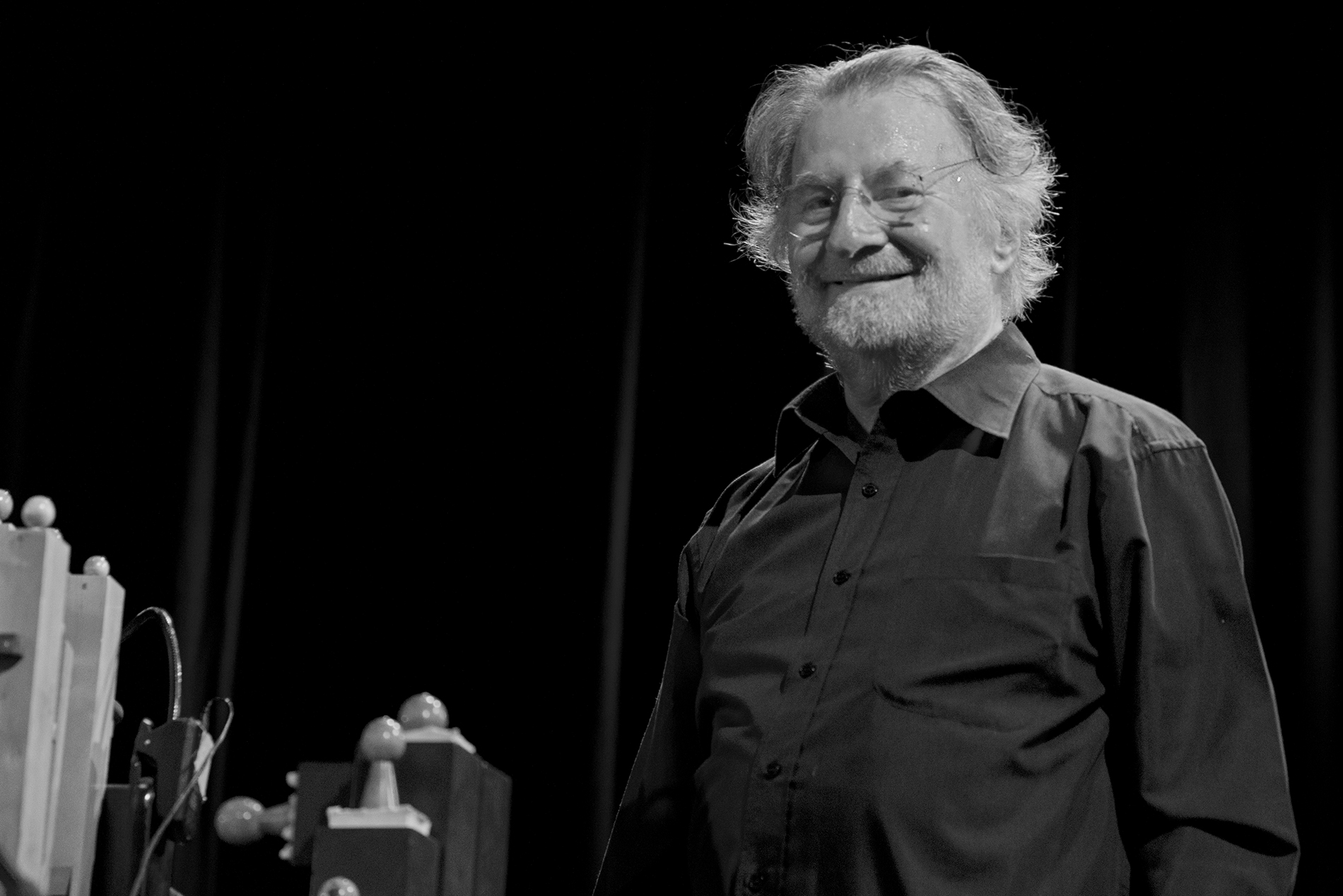 French Musician Pierre Charial